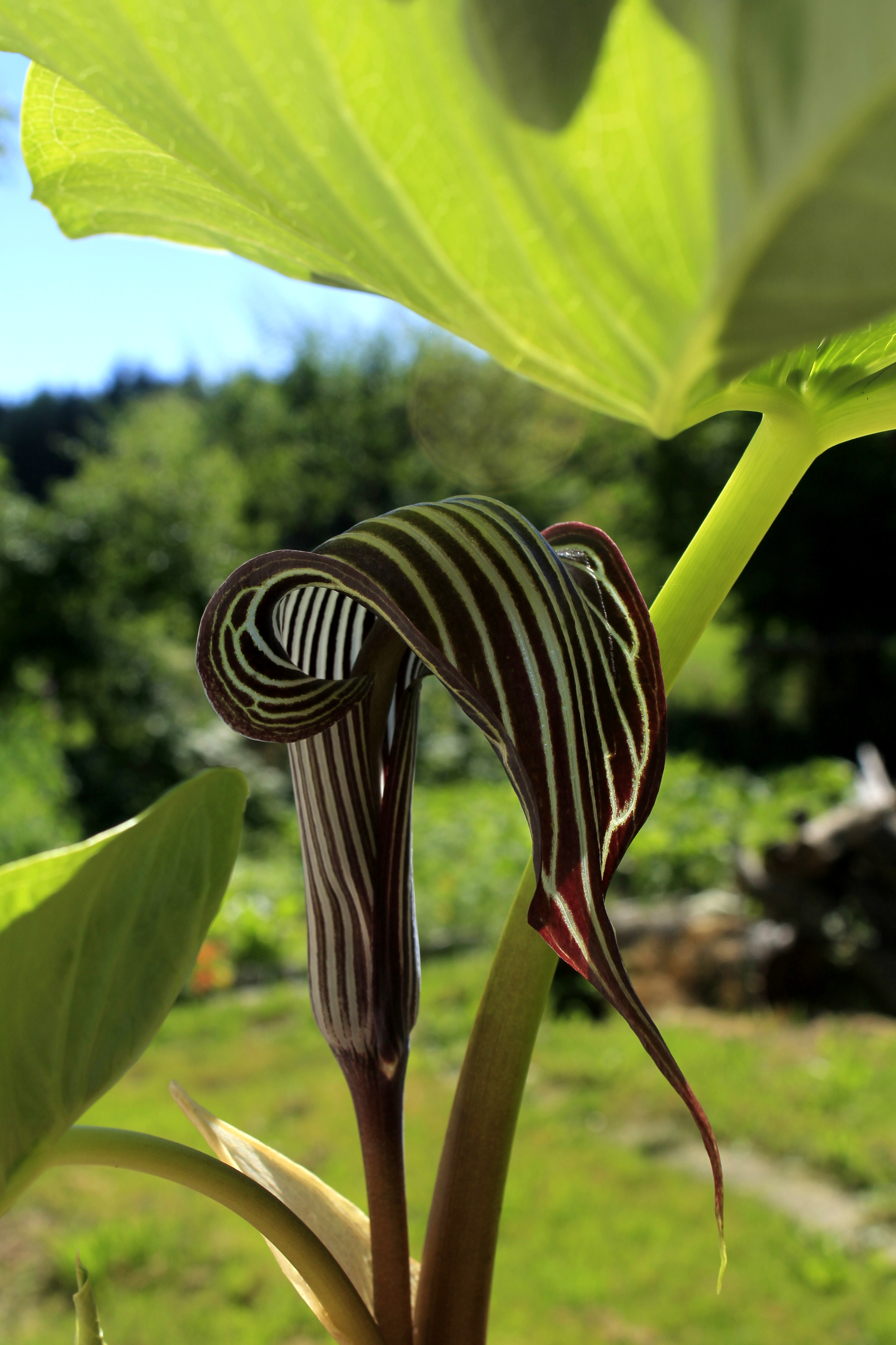 Arisaema fargesii used as an ornamental plant in a garden.